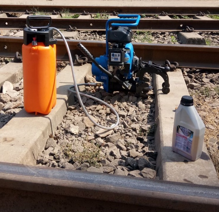 A BDS Maschinen GmbH (Germany) make Petrol Rail Drilling Machine.